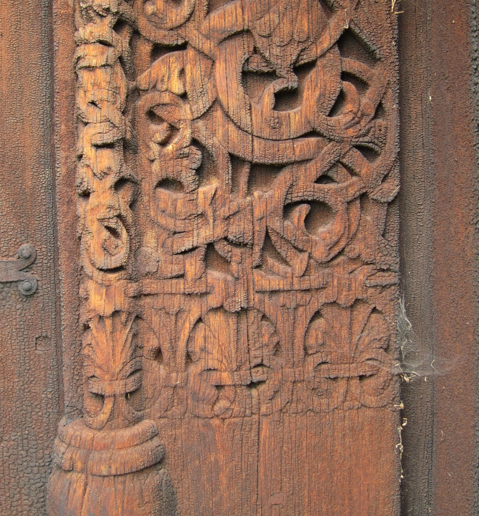 Torpo Stave church, wood carving decorations at door.